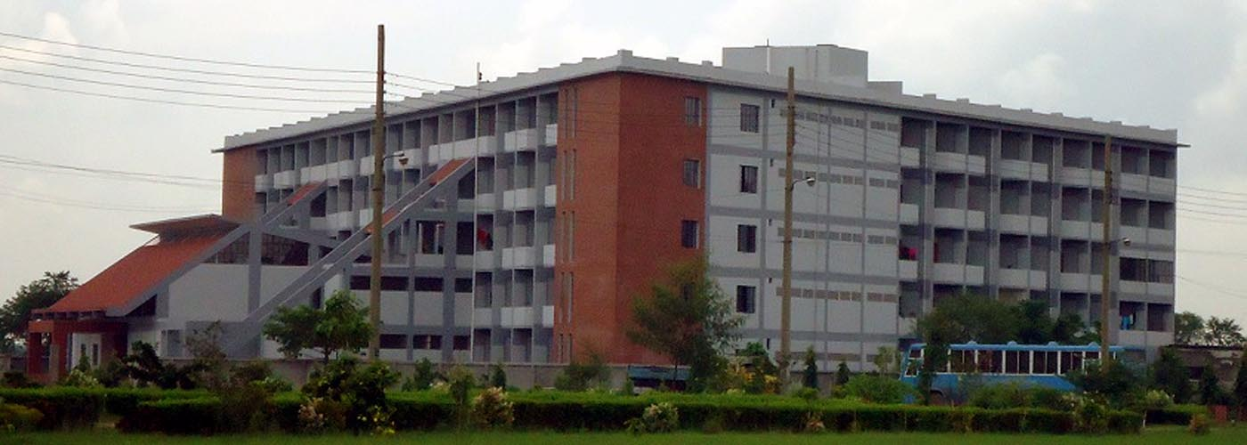 Shekh Hasina Hall of Jessore University of Science and Technology (JUST)